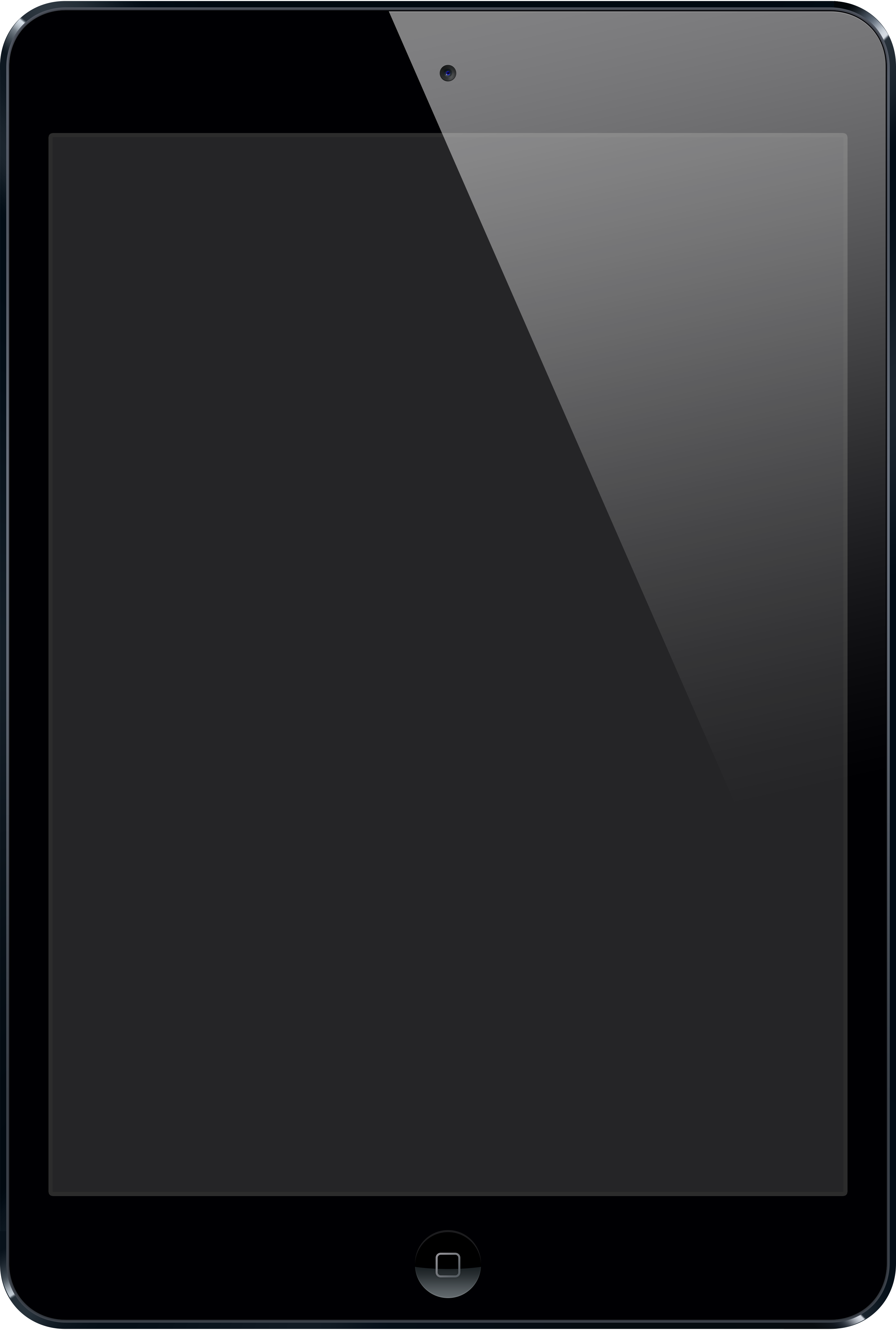 Apple iPad mini in black, image rendered